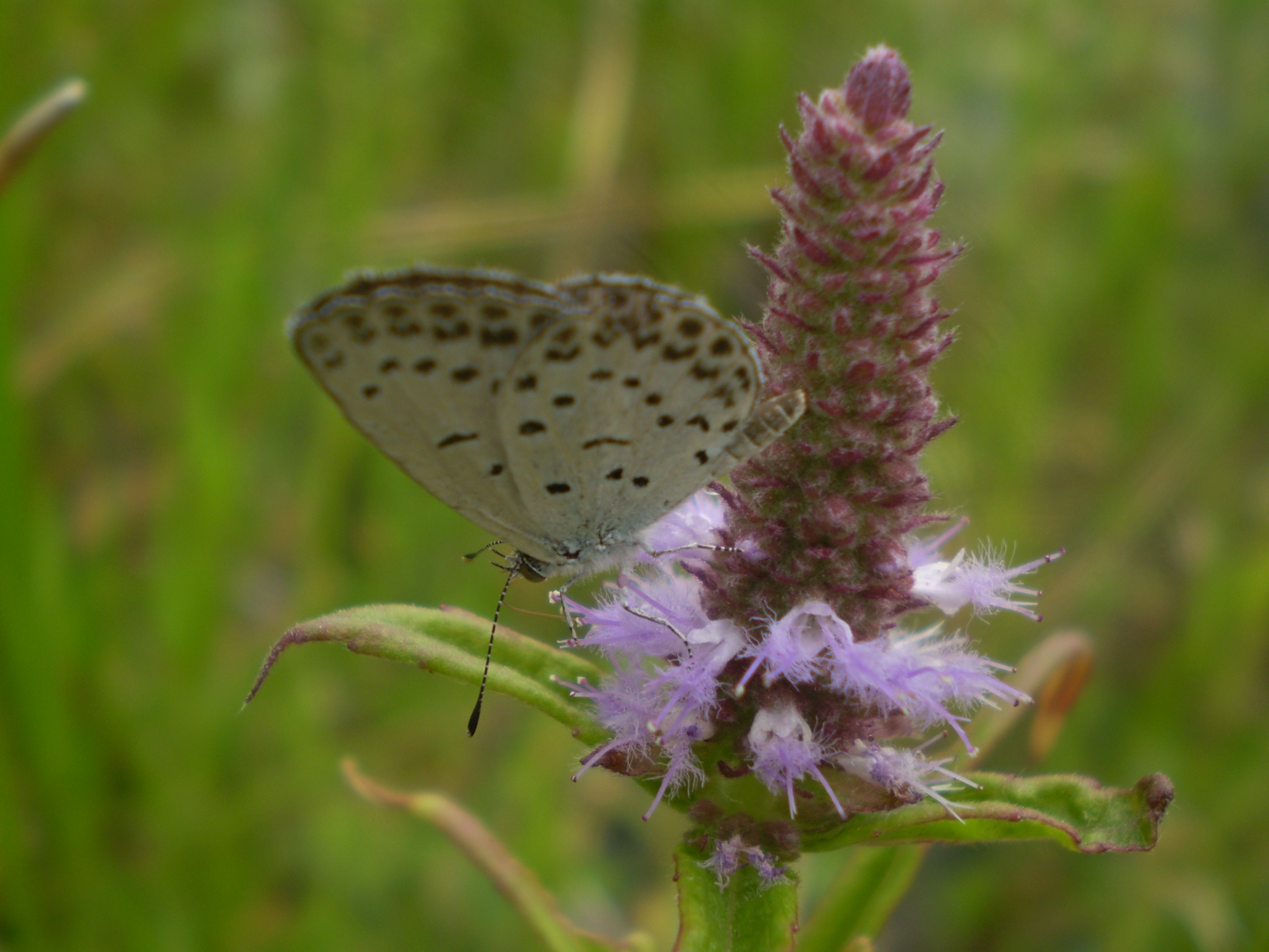 Pseudozizeeria maha(Zizeeria maha) & Pogostemon yatabeanus (Eusteralis yatabeana)